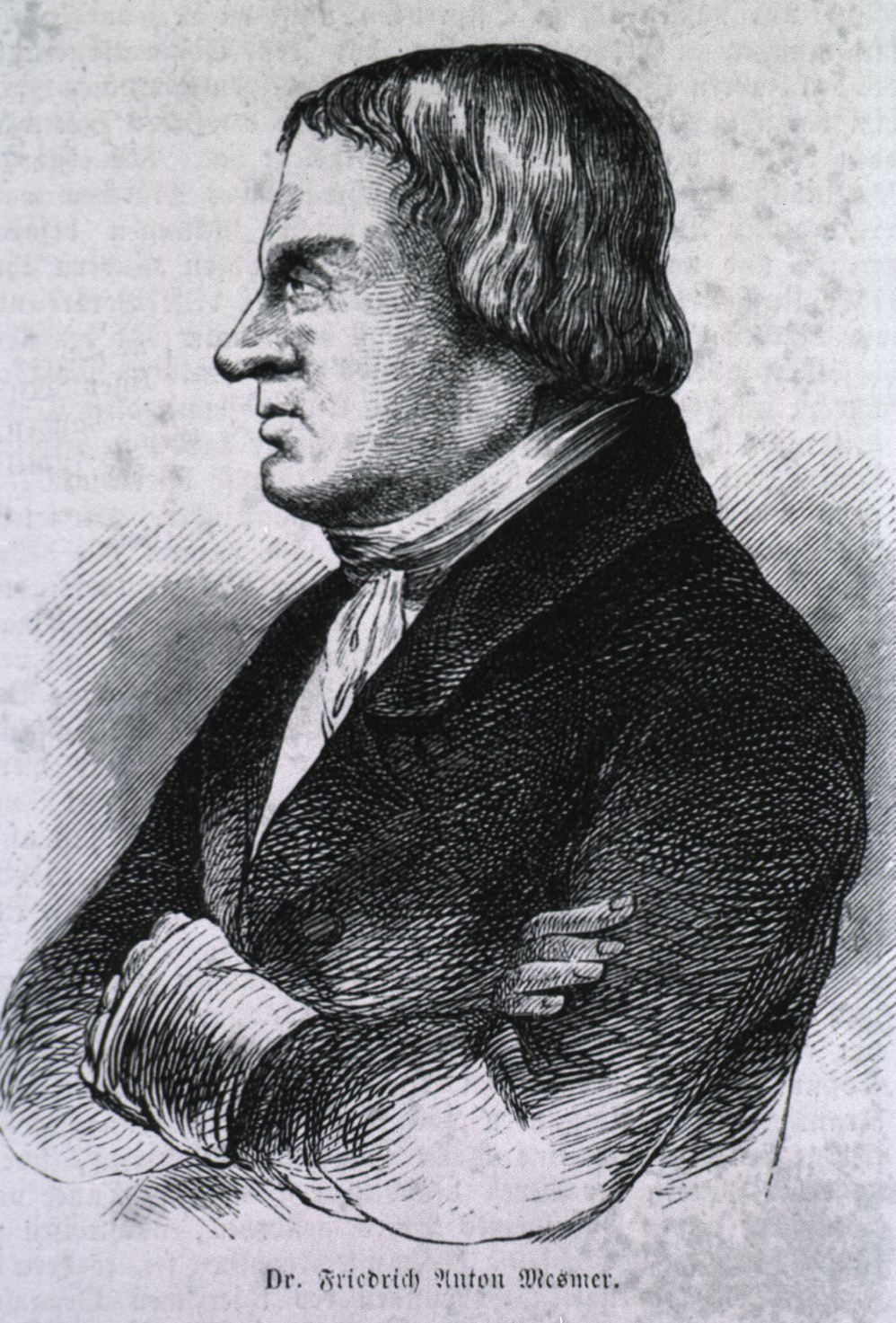 Portrait of Friedrich Anton Mesmer, 1734-1815. Left pose, arms folded. Wood engraving.